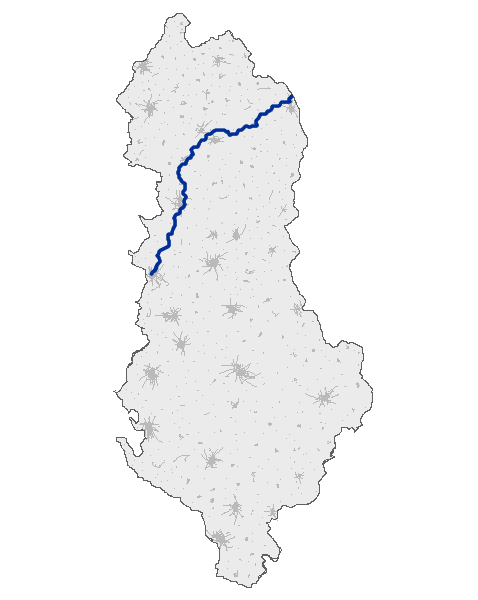 Highway